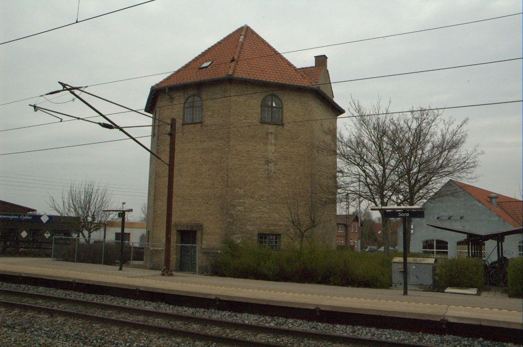 Sorø station, Denmark. Watertower west from 1922